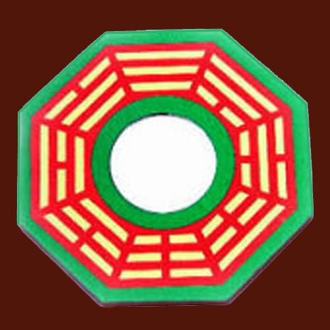 A simple bagua mirror